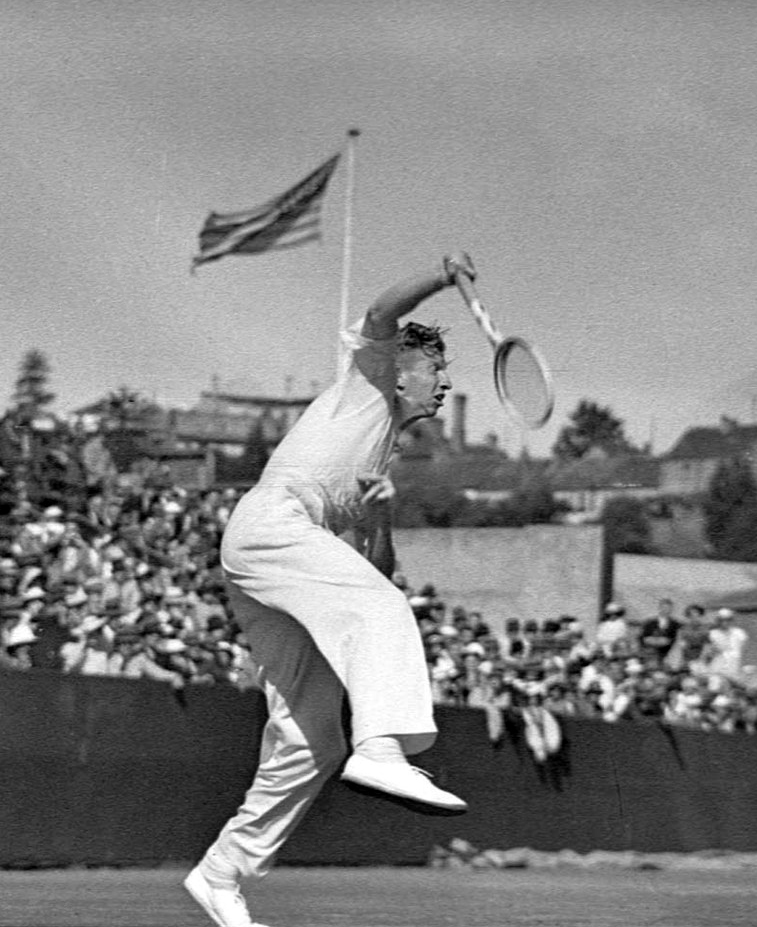 American tennis player Don Budge at the White City Stadium in Sydney, Australia.